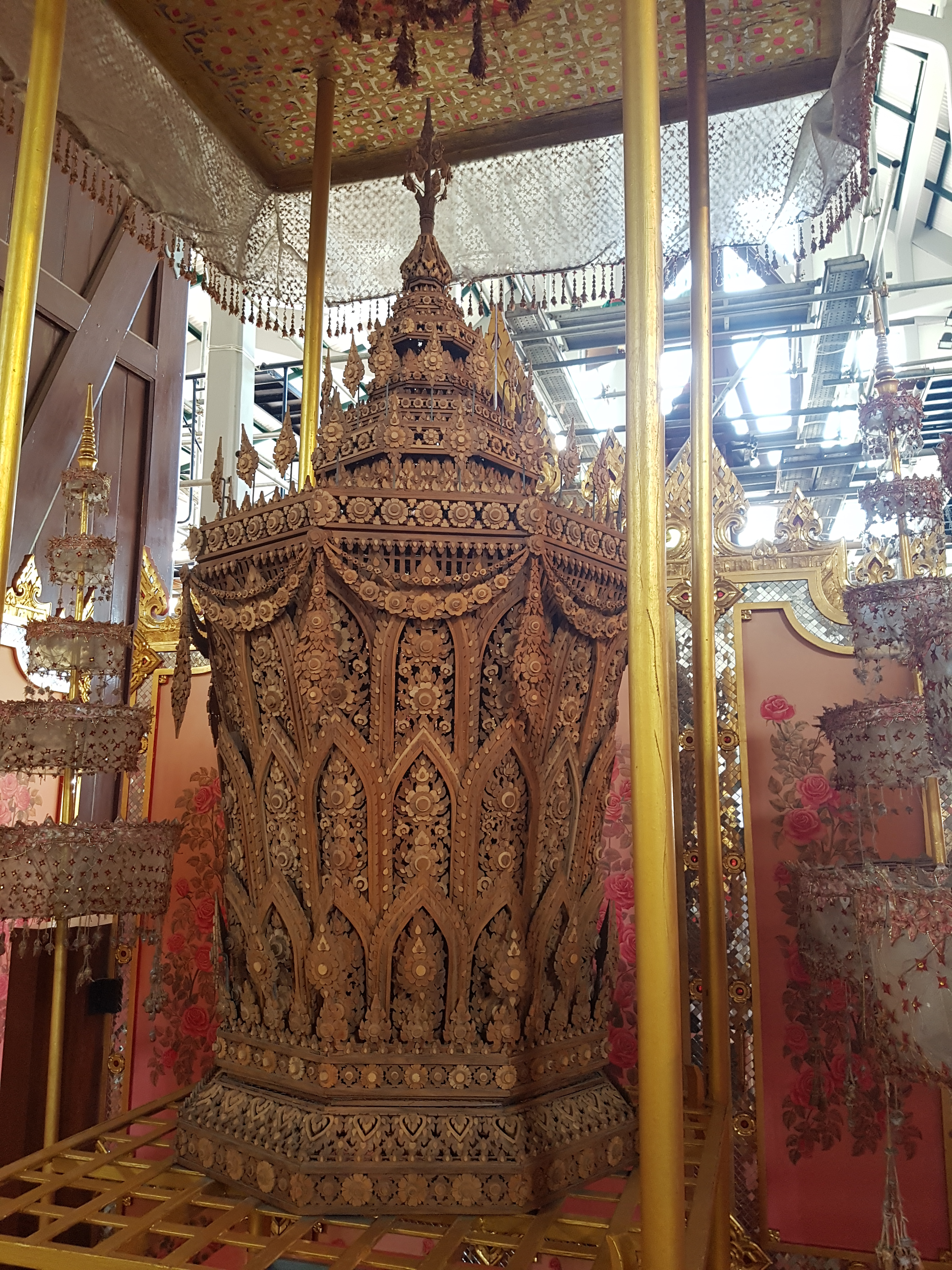 Place: Chariot Hall, Bangkok National Museum, Bangkok, Thailand. Item: Funeral pyre and urn of Princess Bejaratana Rajasuda.